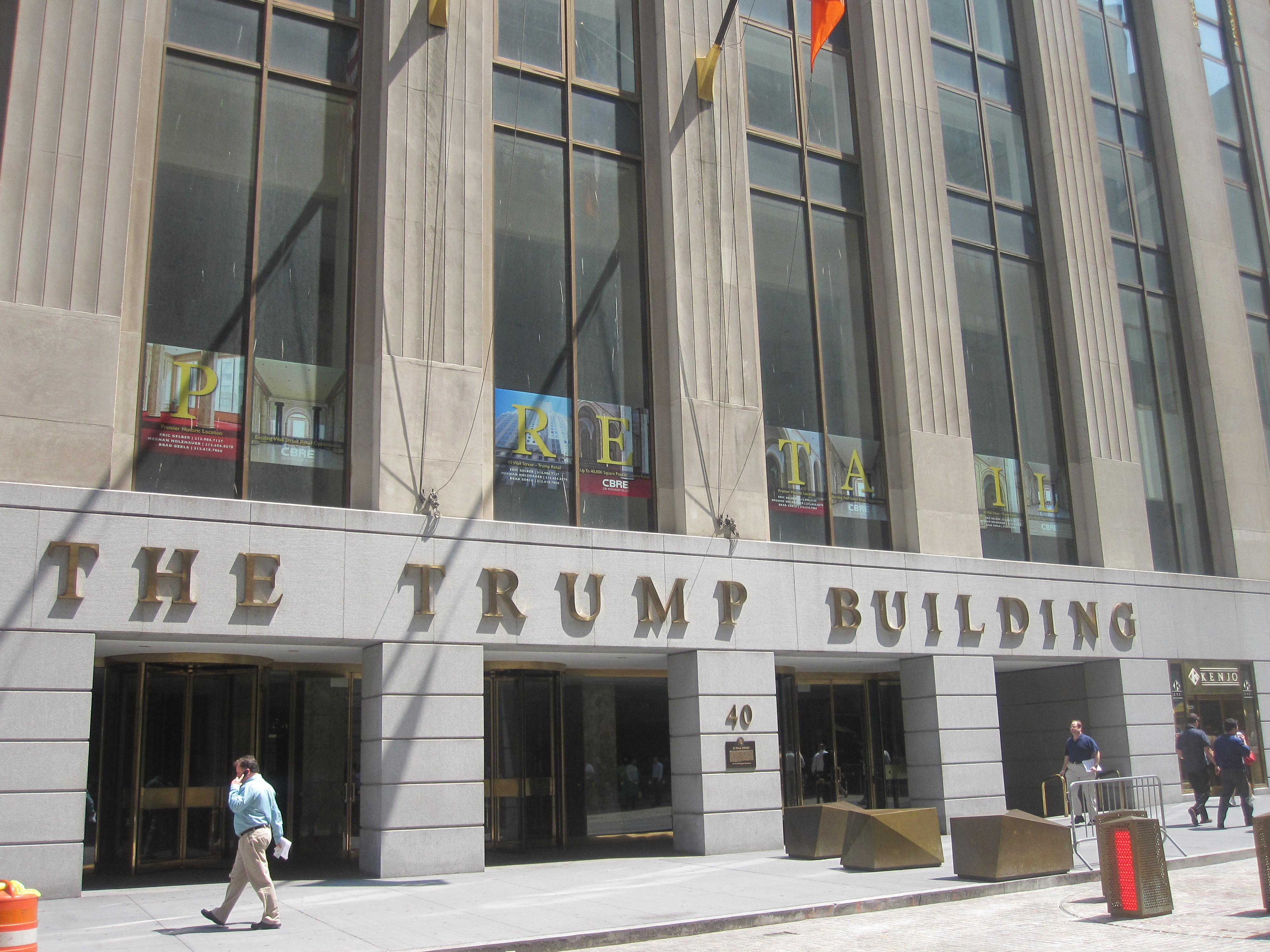 Entrance of The Trump Building (:en:40 Wall Street), New York City